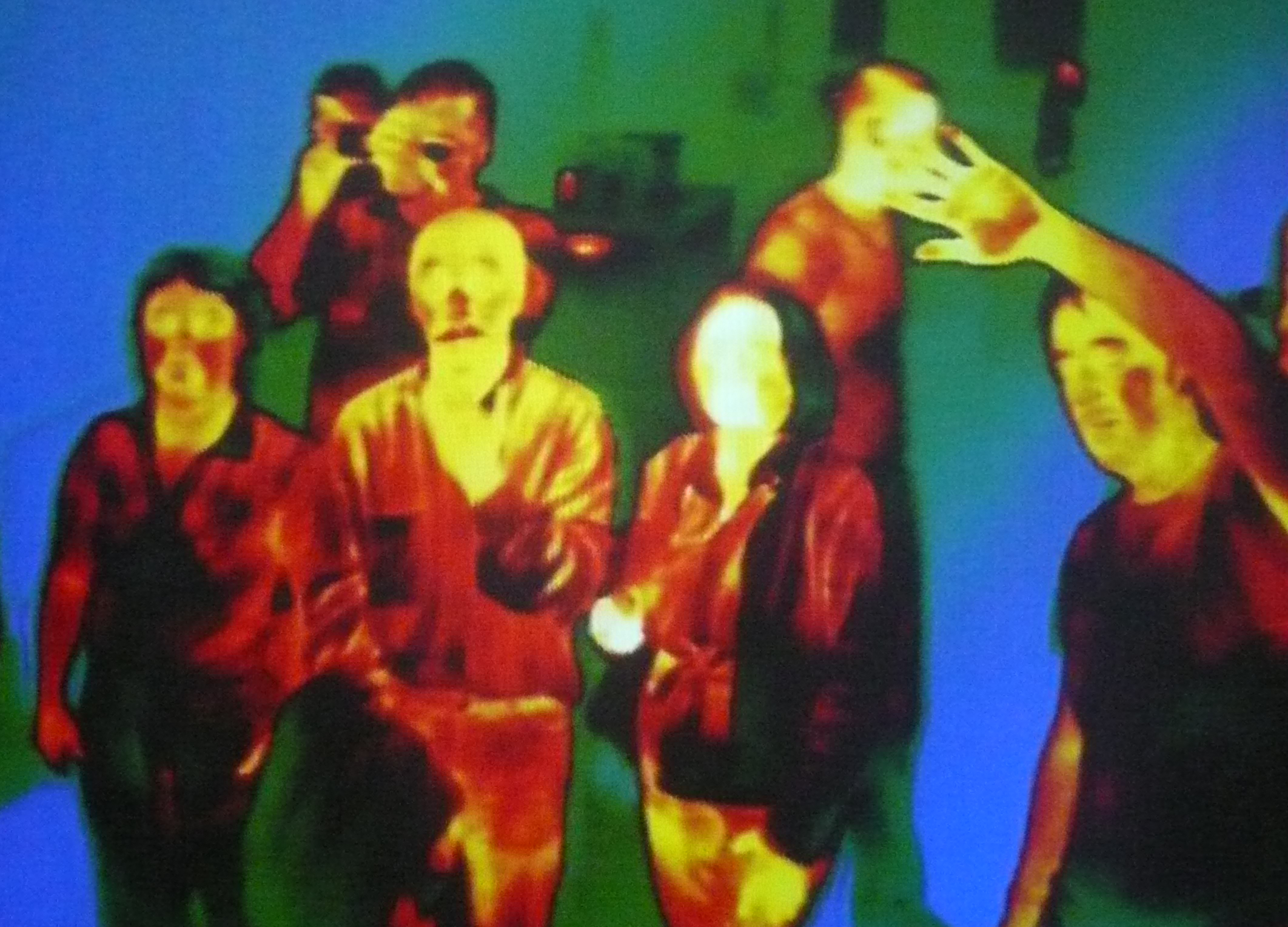 Infrared heat detection